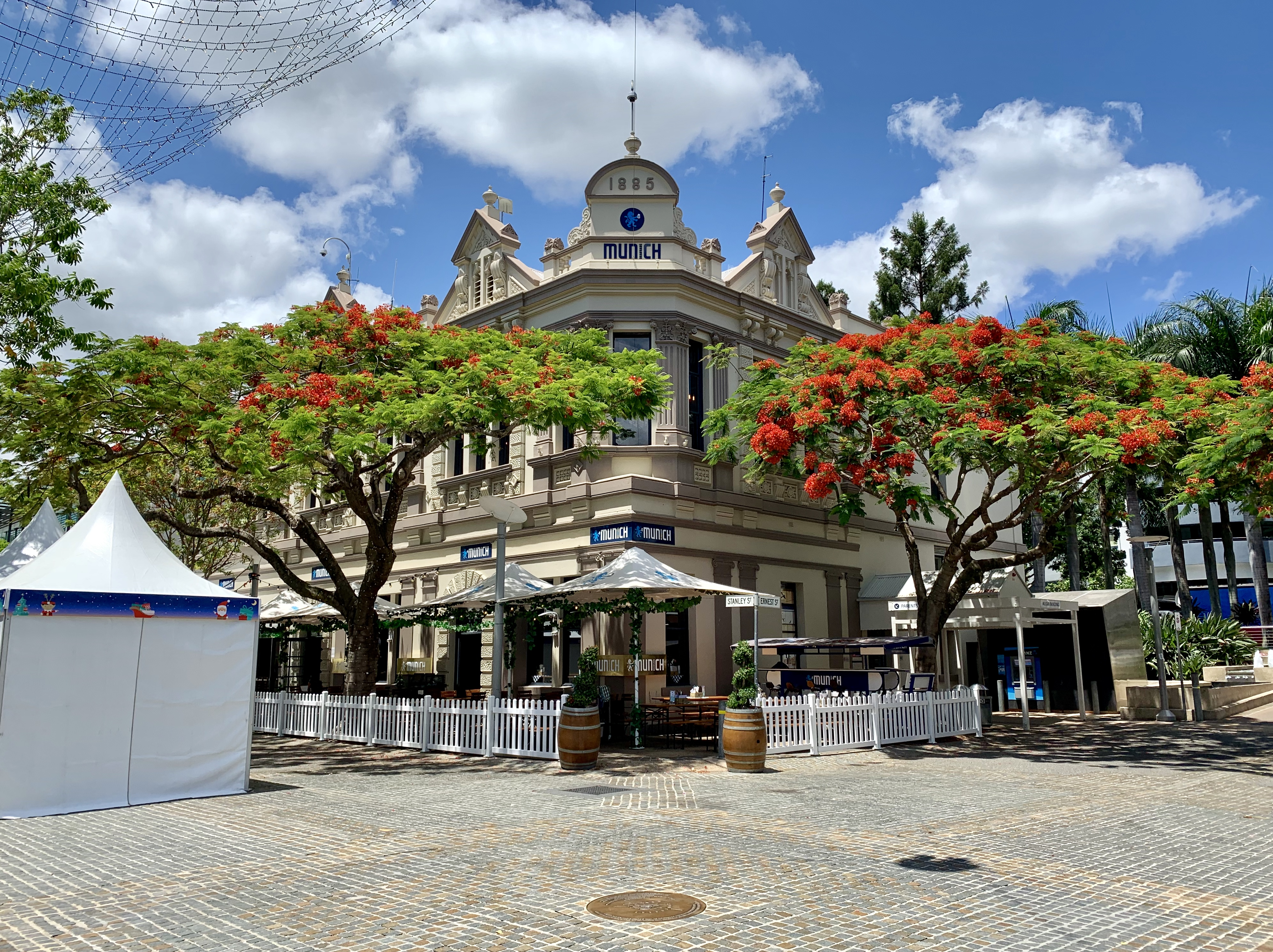 Munich Brauhaus located in Allgas Building, South Brisbane